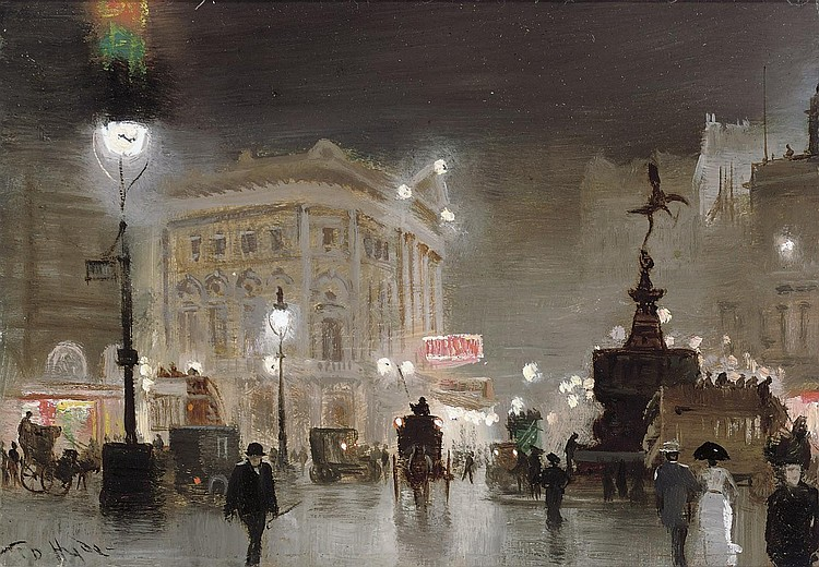 Piccadilly Circus, George Hyde Pownall (died 1932)